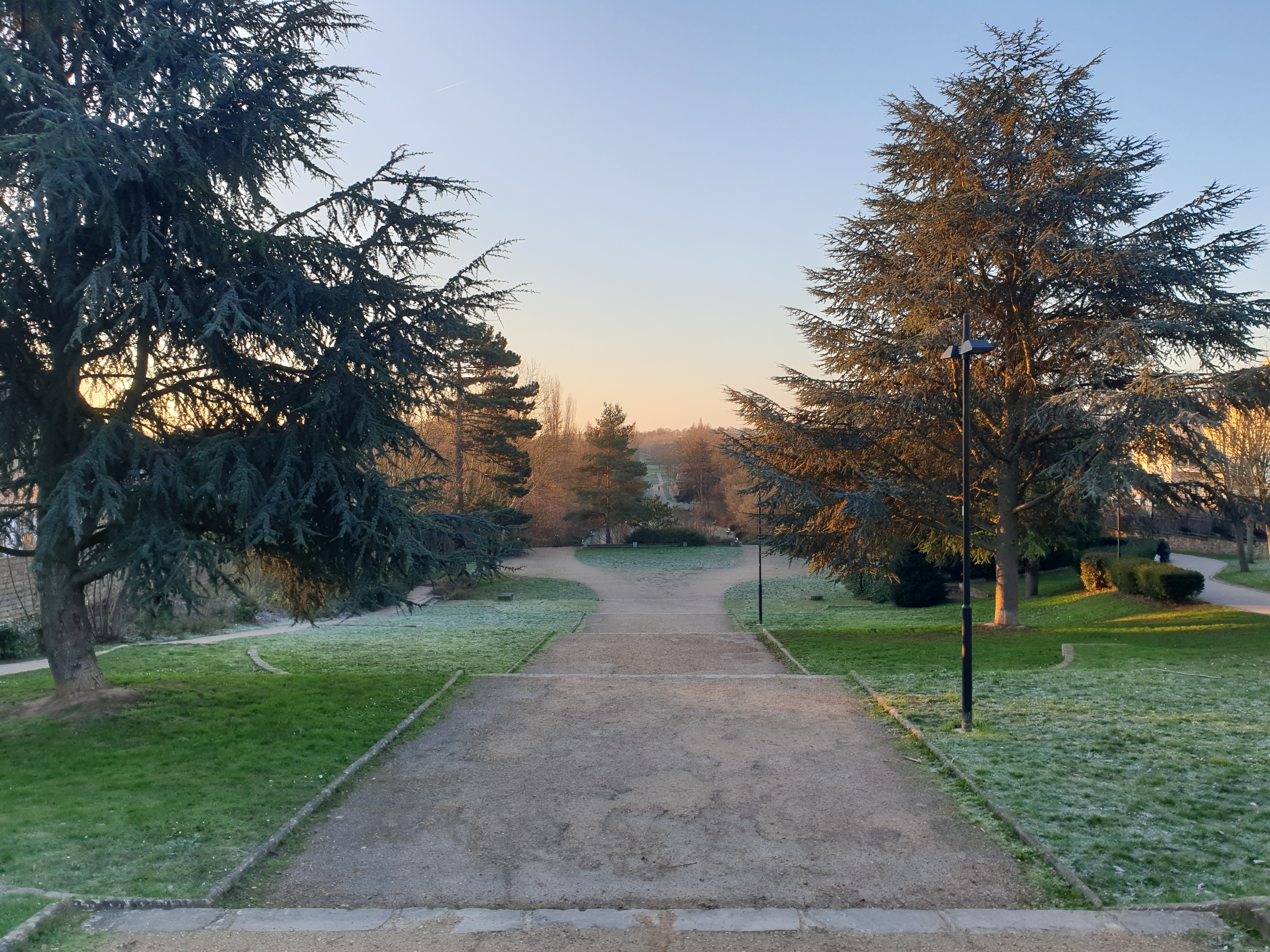 Vallons-de-la-Bièvre Departmental promenade at Châtenay-Malabry - 2020-01-21.